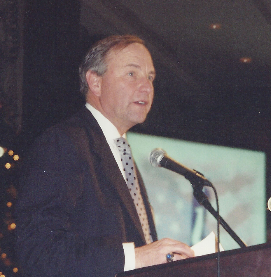 Radio host Mike Rosen at an Independence Institute event at the Brown Palace in Denver, December 5, 2002.